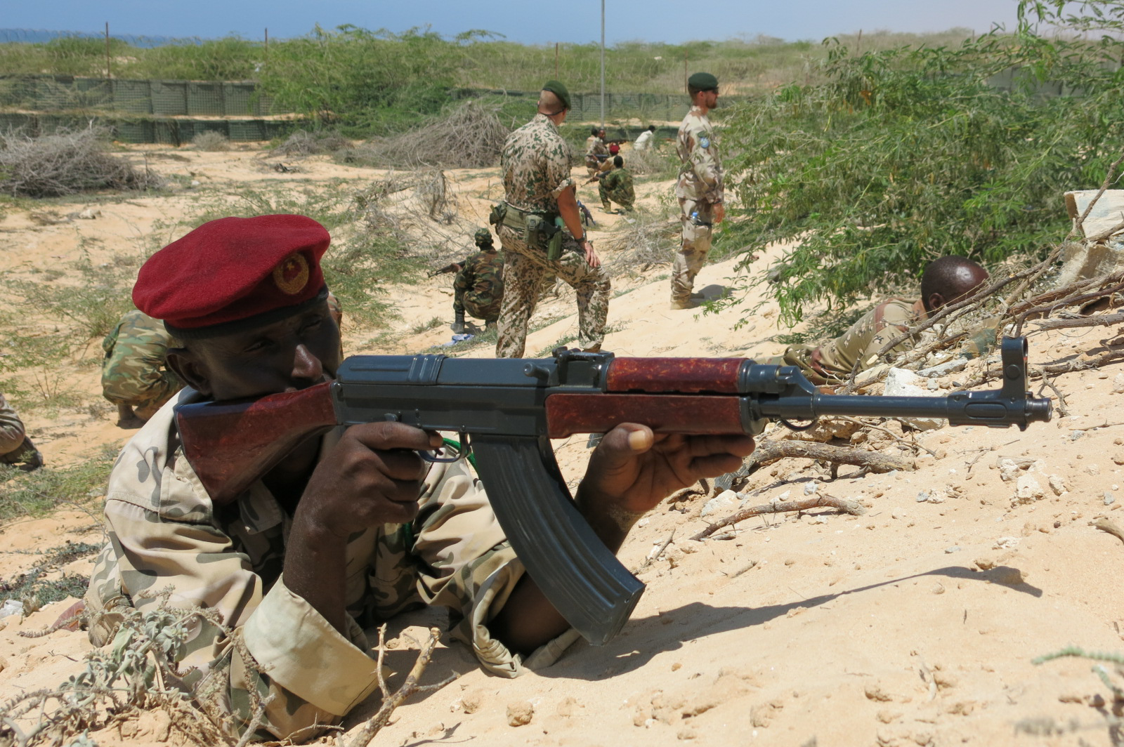 A soldier of the Somali National Army (SNA) at Jazeera Training Camp in Mogadishu. He was part of a group of SNA soldiers who completed training in military intelligence and the Non-Commissioned Officers' course on 25 March 2015. AMISOM Photo / Raymond Baguma